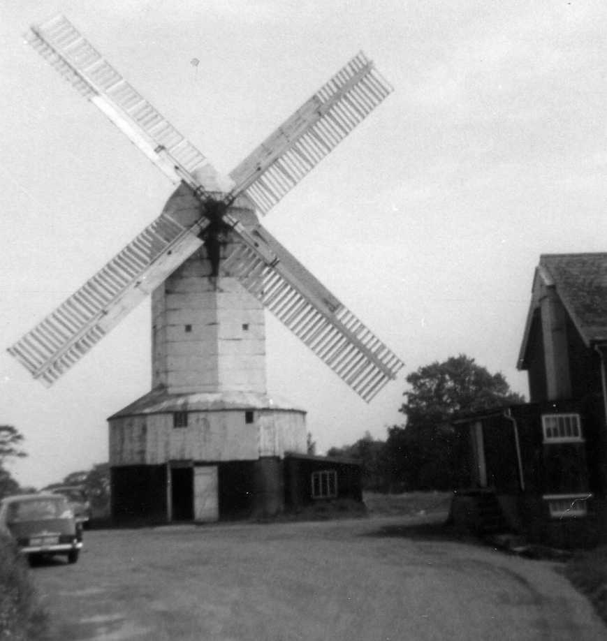 New Mill, Cross in Hand, 1967